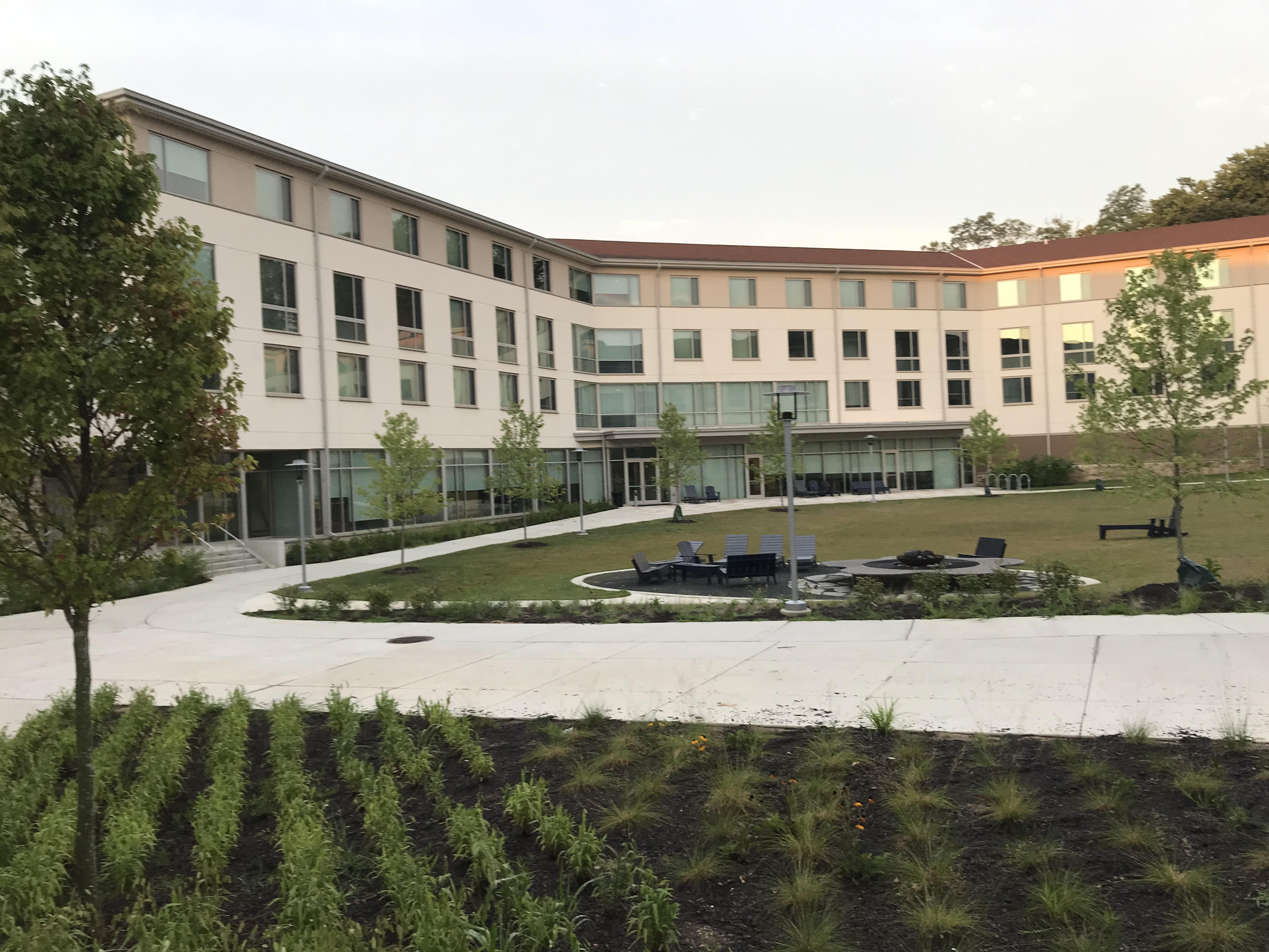 Pagliaro-Selz Hall